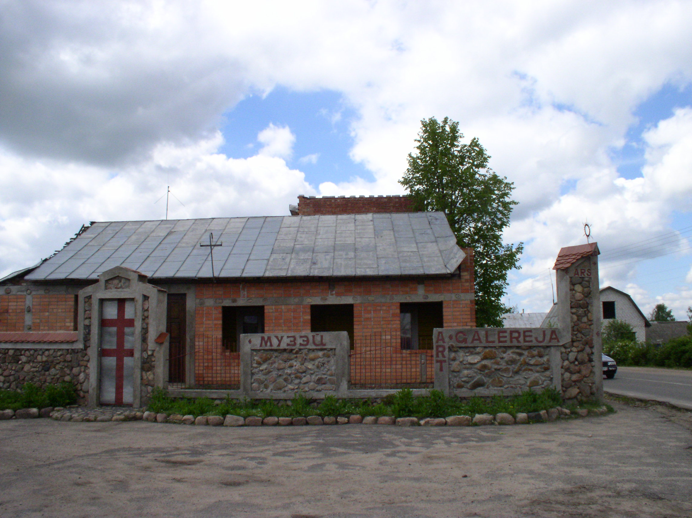 Museum-art gallery "Yanushkevichy". Rakaw, Belarus.